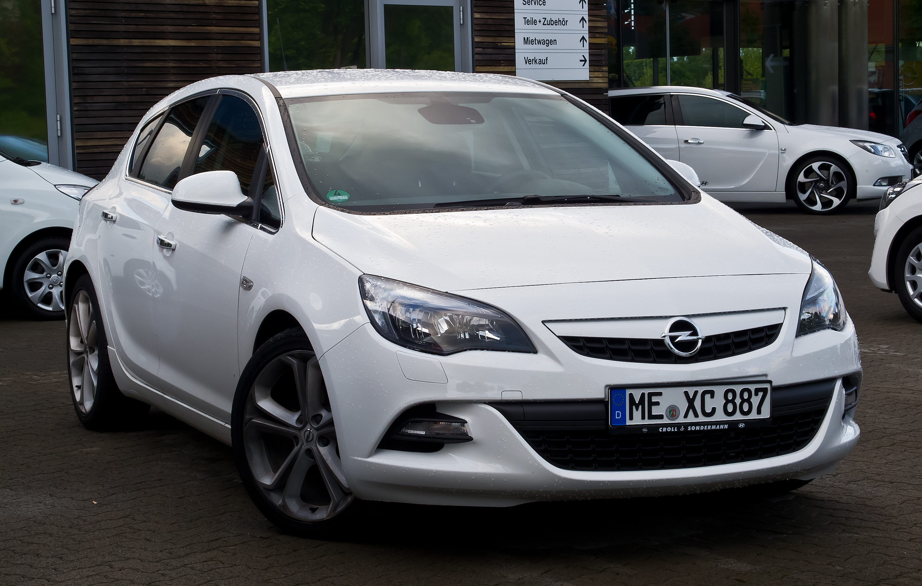 Opel Astra 1.7 CDTI White Edition (J)